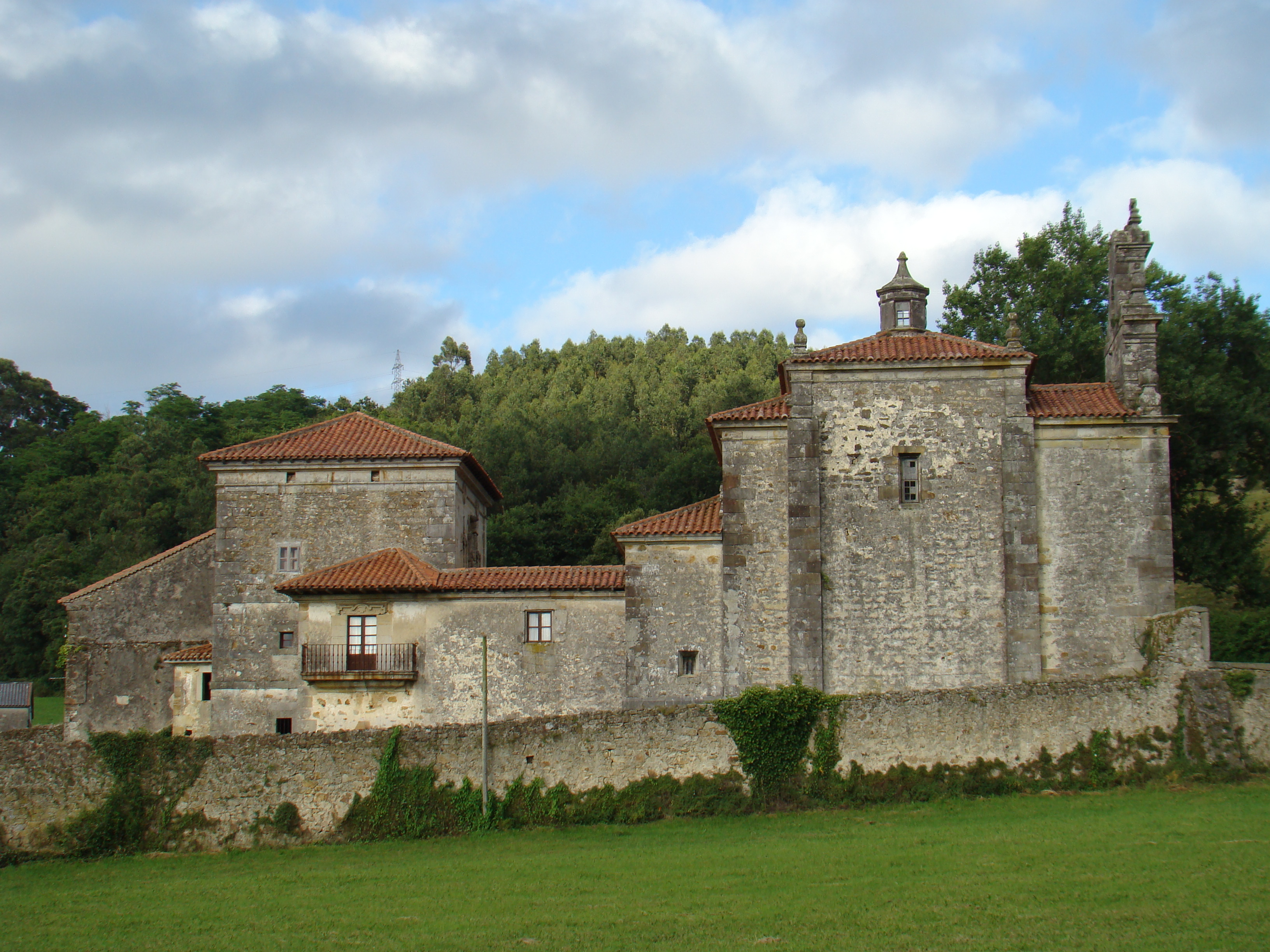 Bárcena de Cicero (Cantabria, Spain). View of the noble house and the church of Carmen of the Lord of Rugama. It is a palace built for Lorenzo de Rugama in the middle of the 18th century which consists of a tower-house and a chapel-pantheon consagrated to the Virgin of Carmen.